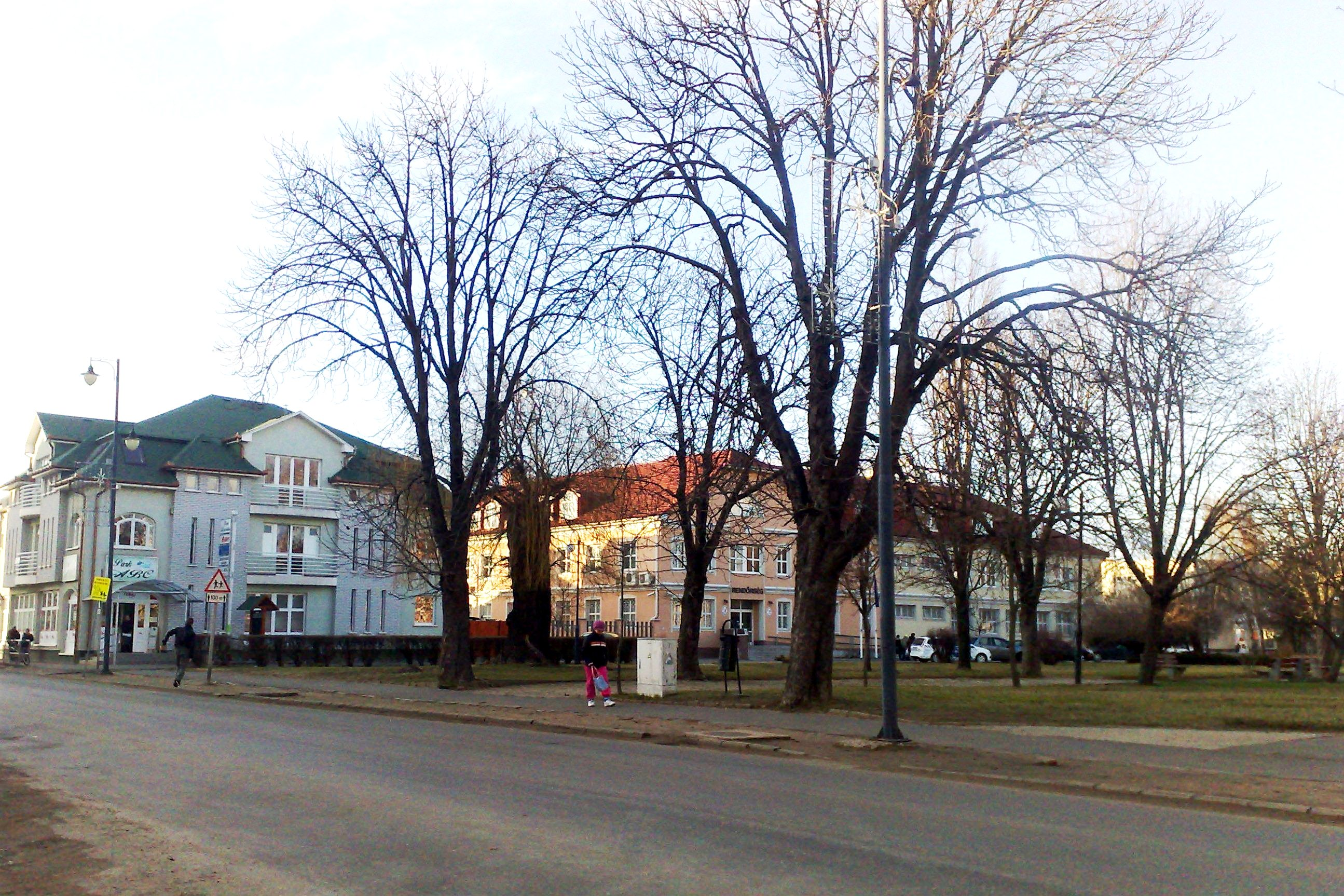 Hajdúhadház